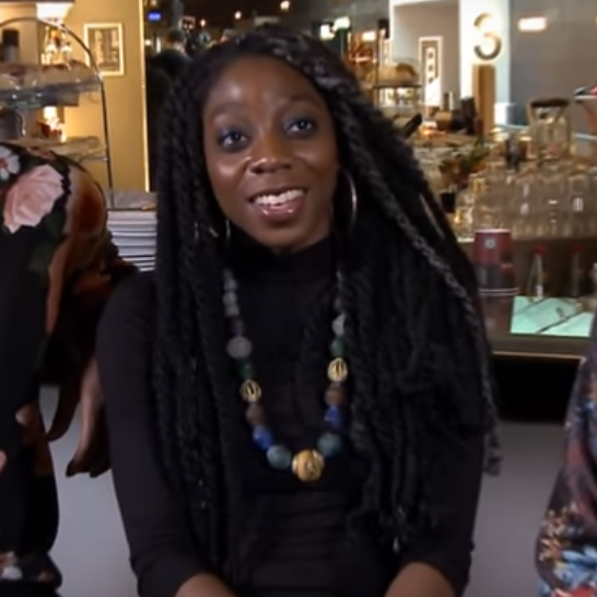 Interview with Aaron Alexis Biscombe and Akosua Adoma Owusu about their film "Reluctantly Queer"